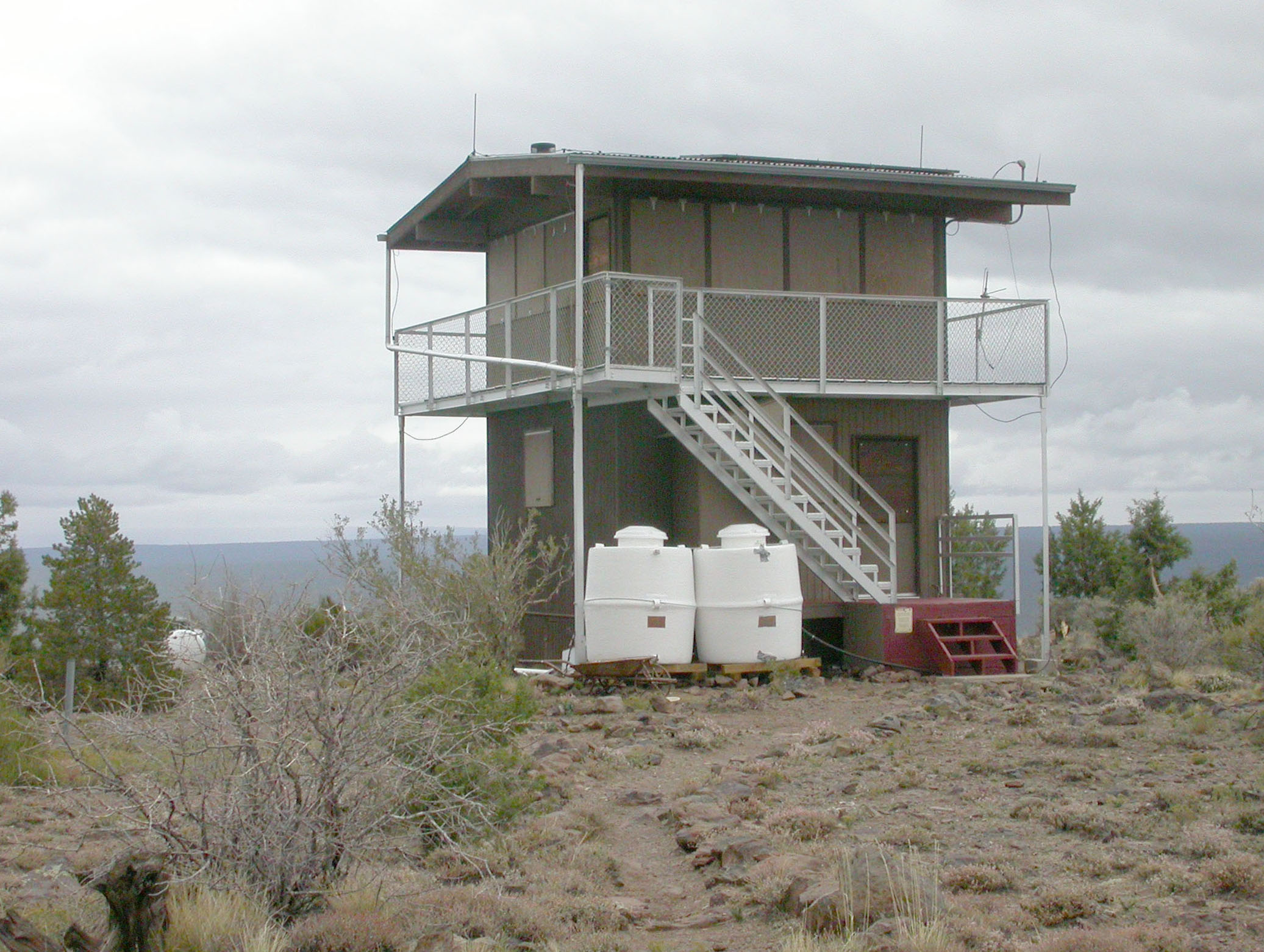 The fire lookout at the top of Red Butte in Kaibab National Forest, Coconino County, Arizona.